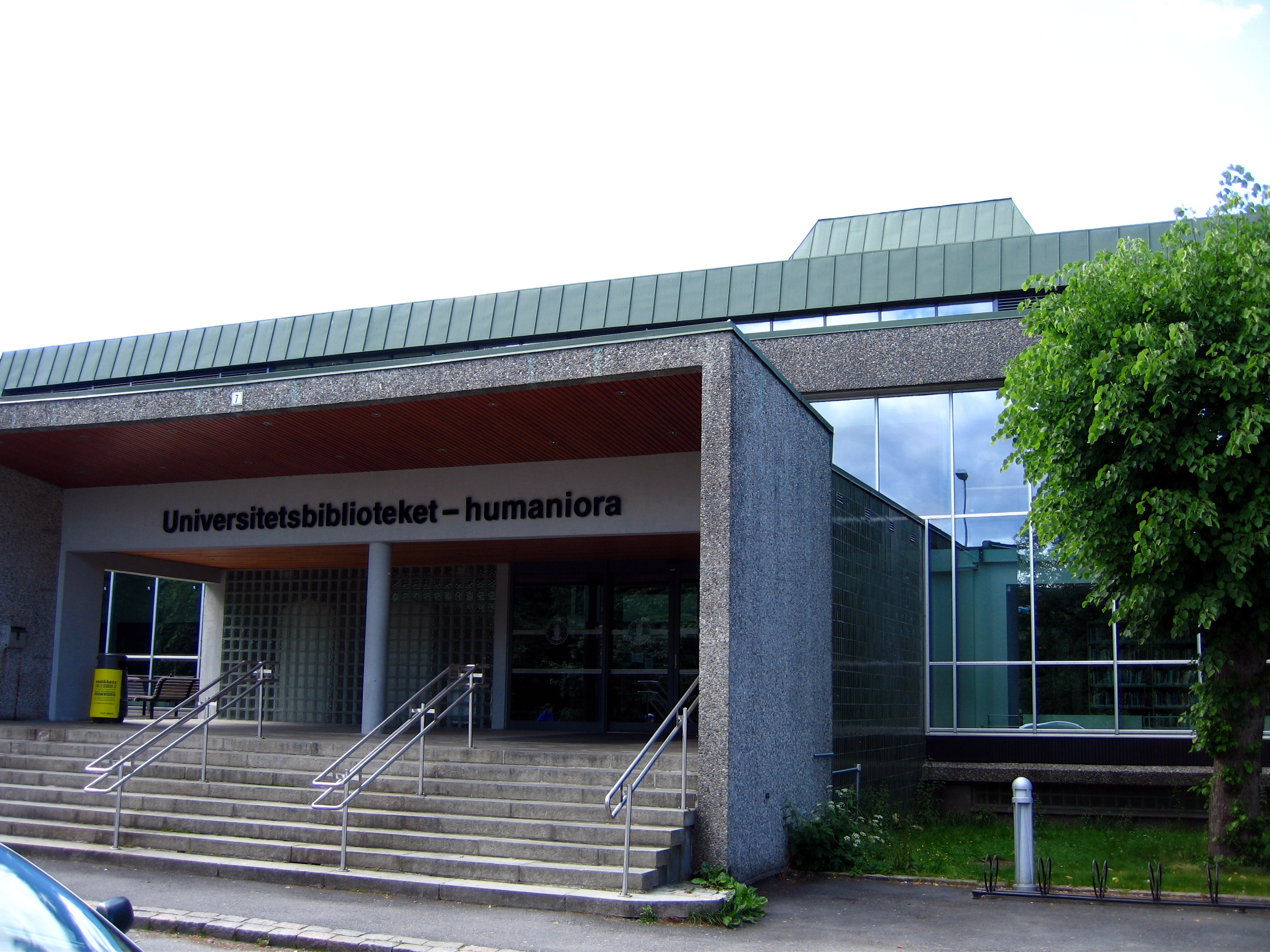 Arts and Humanities Library, University of Bergen